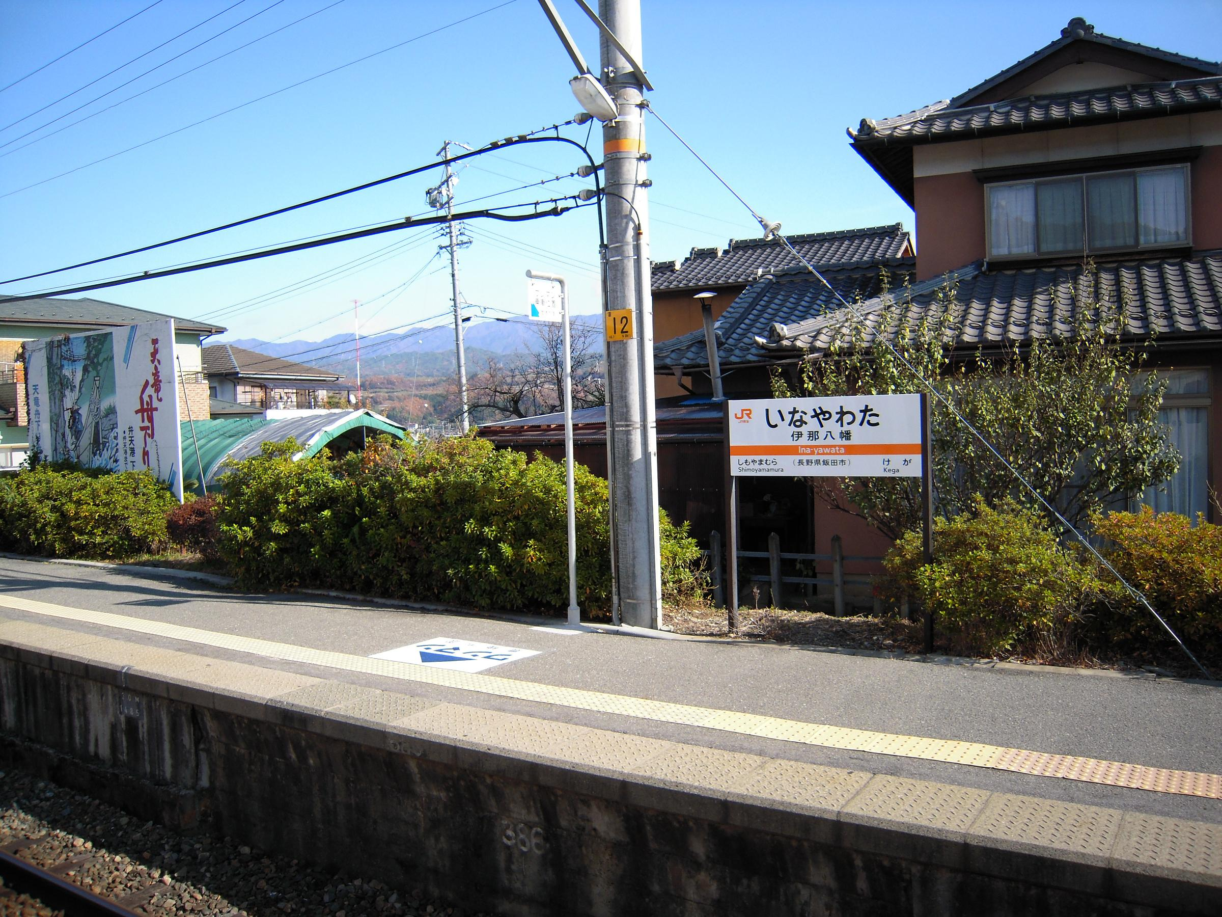 JR Iida Line Ina-Yawata Station, platform for Iida and Tatsuno